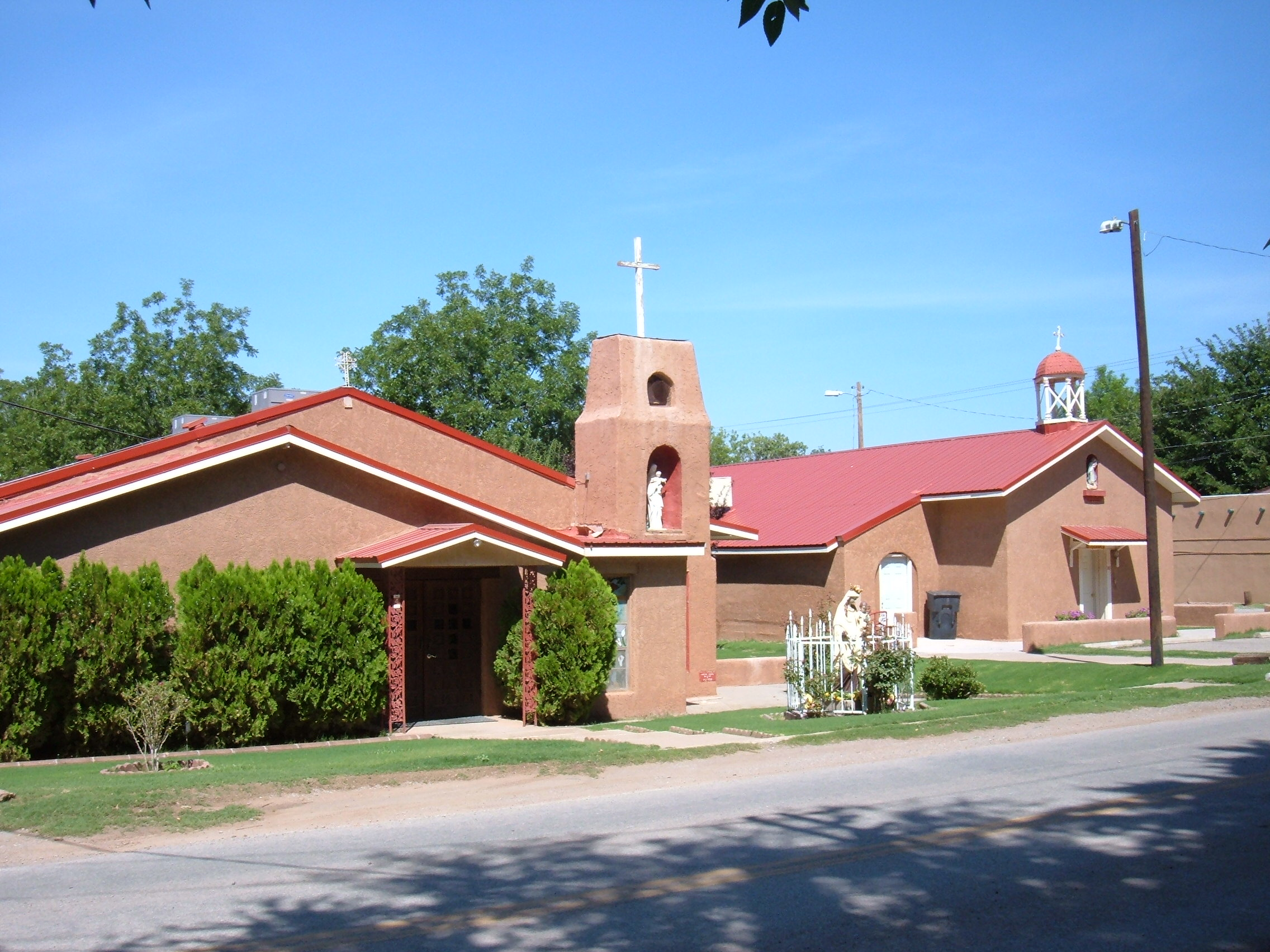 Our Lady of the Light (Nuestra Señora de La Luz) Church, located at the corner of Main Street and Alamo Street in La Luz, New Mexico.